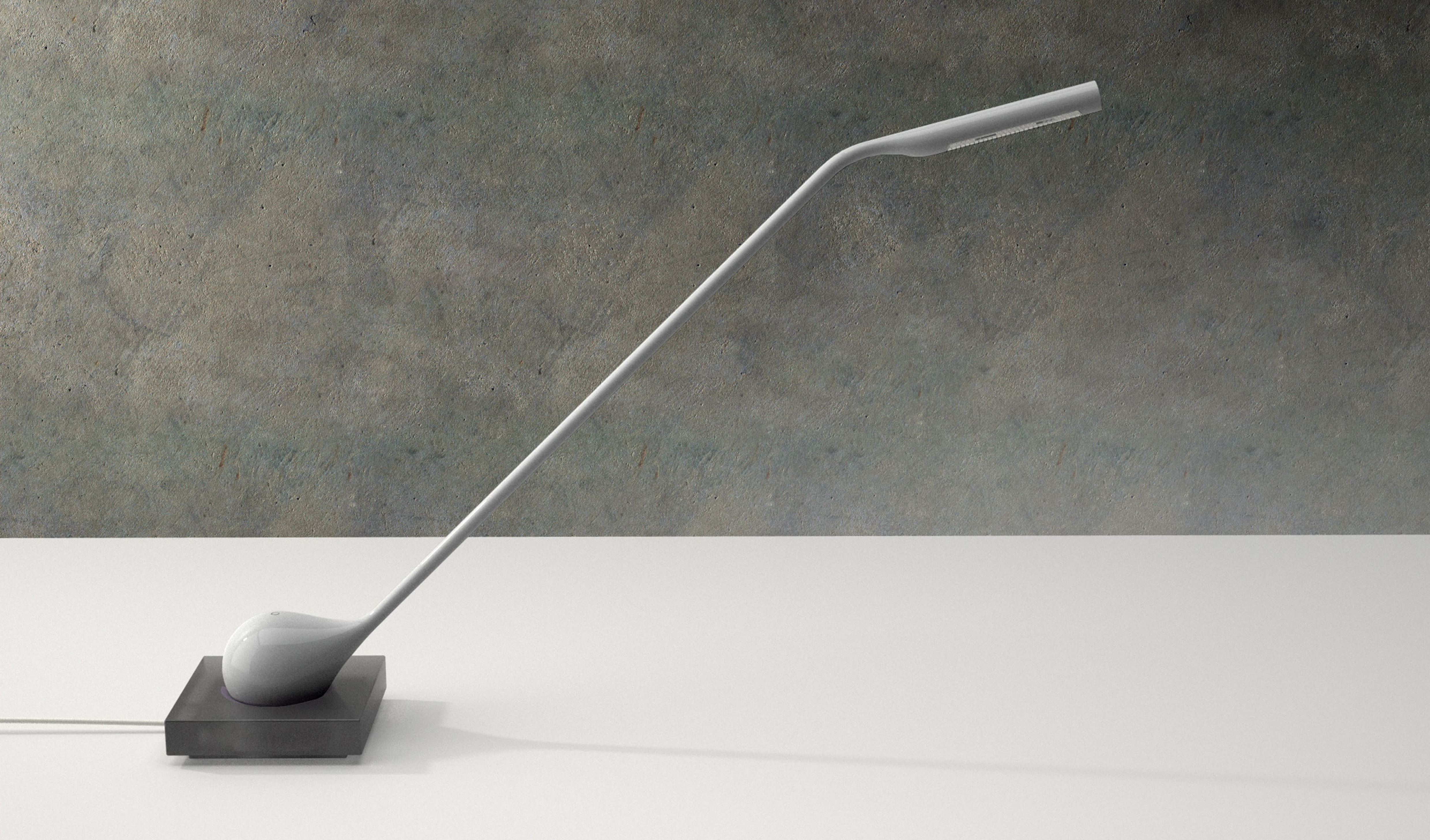 w083 Desk Lamp, Wästberg, Massaud